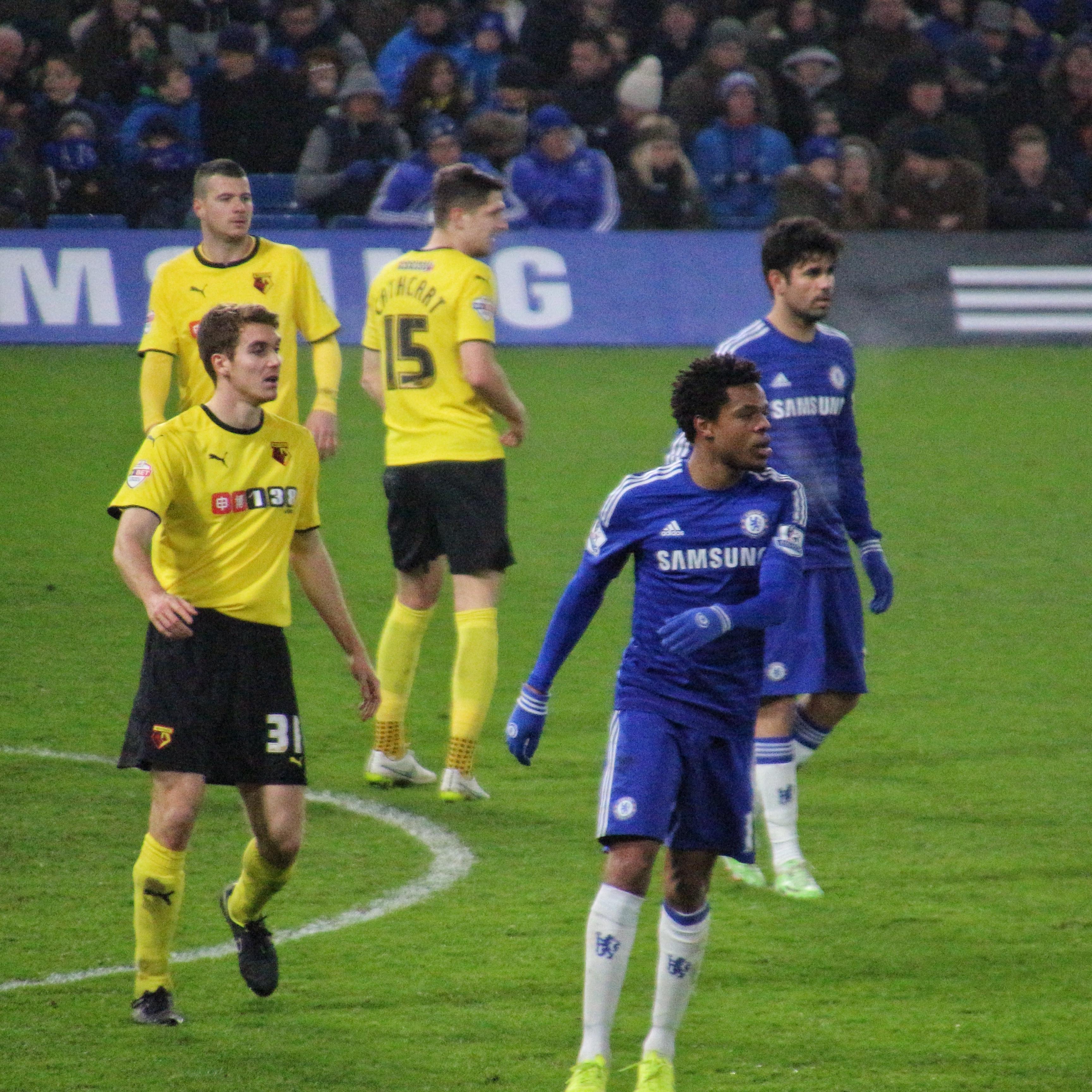 Chelsea 3 Watford 0 FA Cup 3rd round